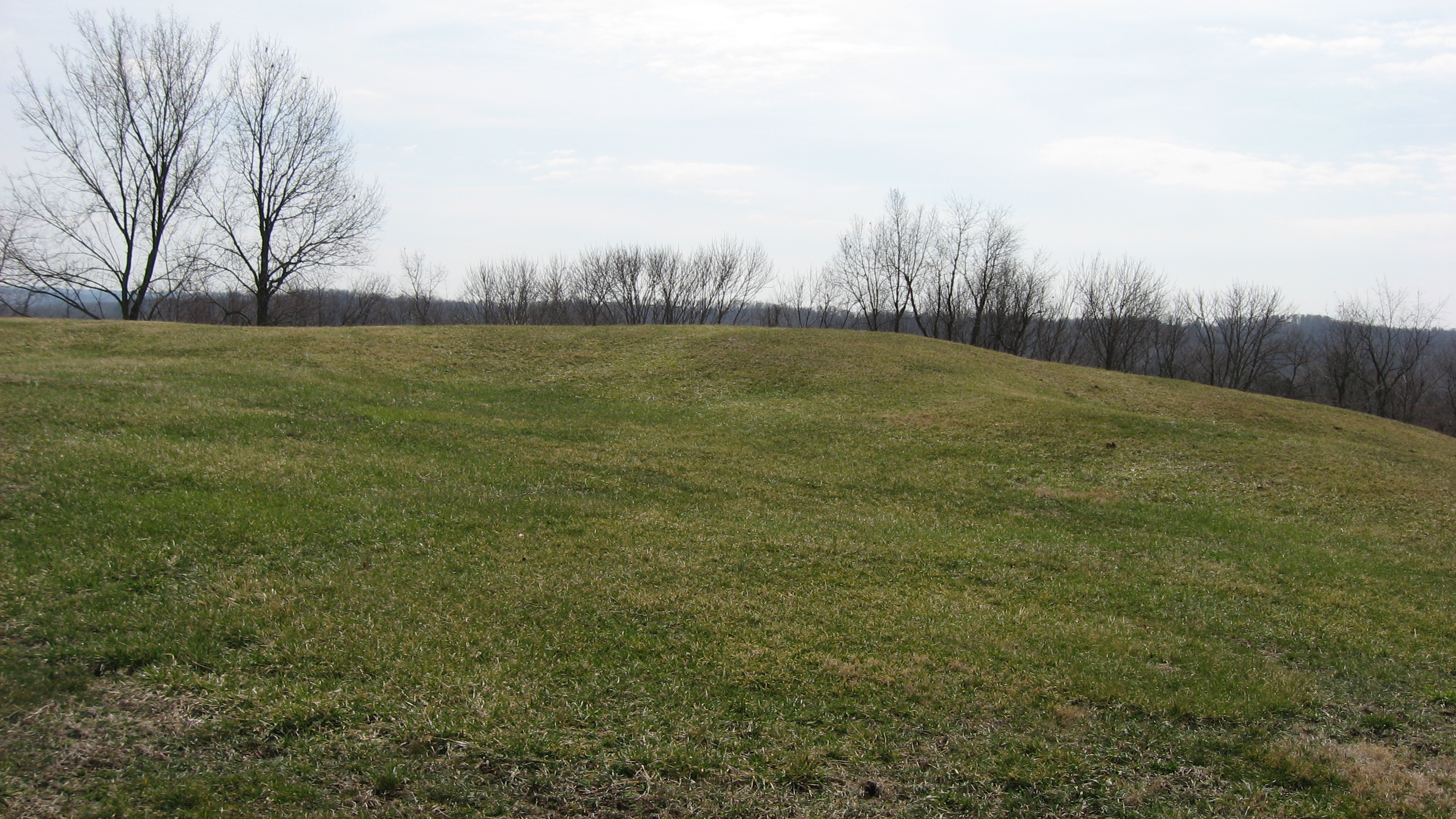 View from the north of the Alligator Effigy Mound, an effigy mound located inside a traffic circle formed by Bryn Du Drive on the eastern side of Granville, Ohio, United States. Now thought to be a representation of an underwater panther, it appears to have been built by the Fort Ancient culture. As an important archaeological site, it is listed on the National Register of Historic Places.